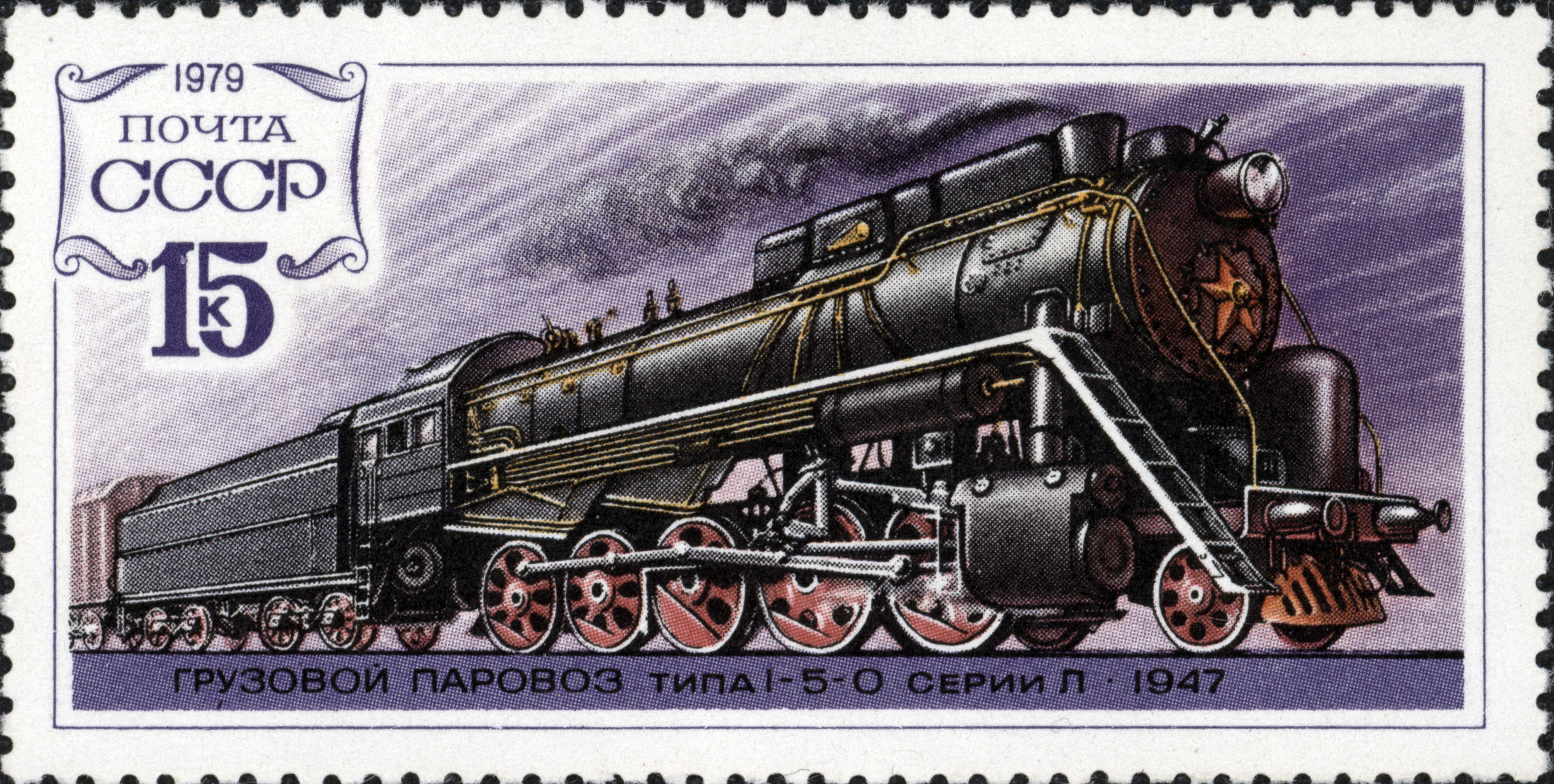 USSR stamp depicting steam locomotive L type 1-5-0